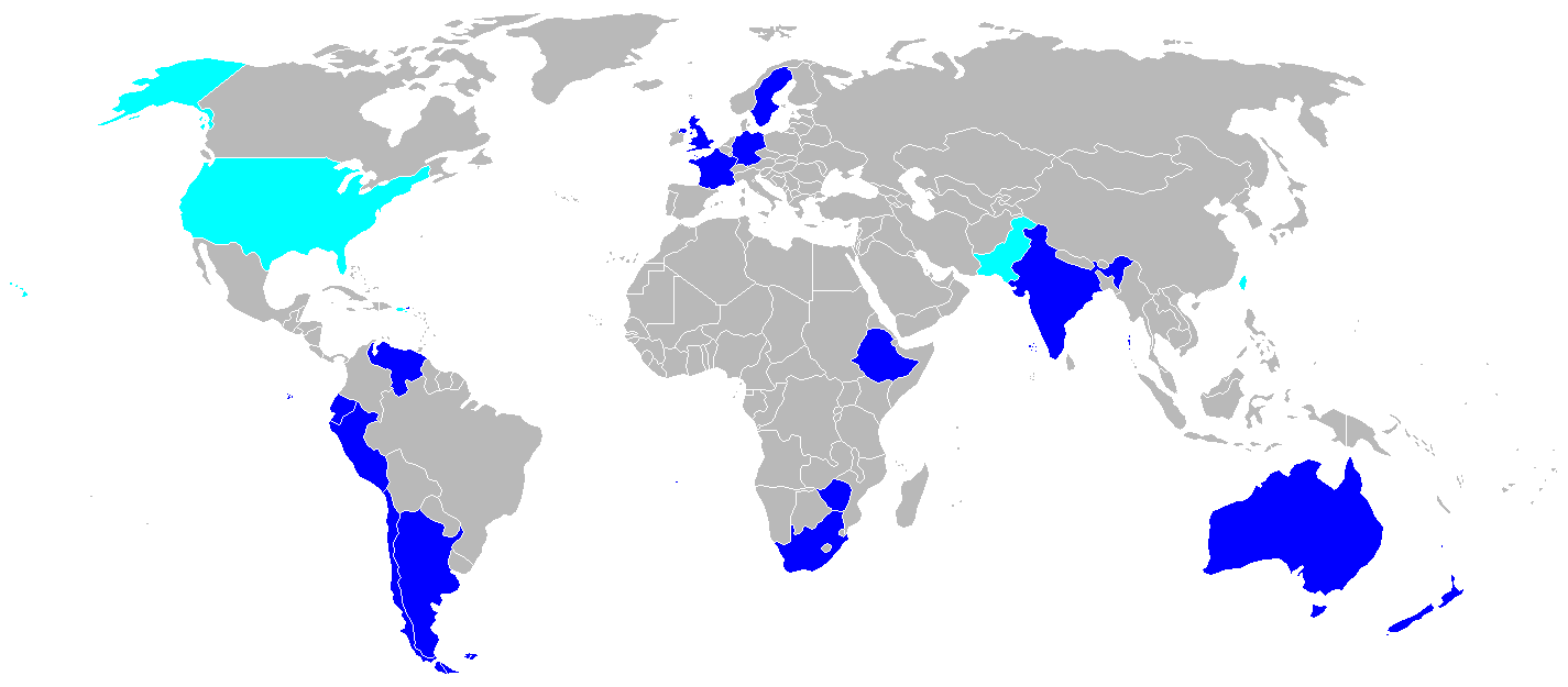 Operators of the English Electric Canberra (dark blue) and American Martin B-57 (light blue) aircraft.